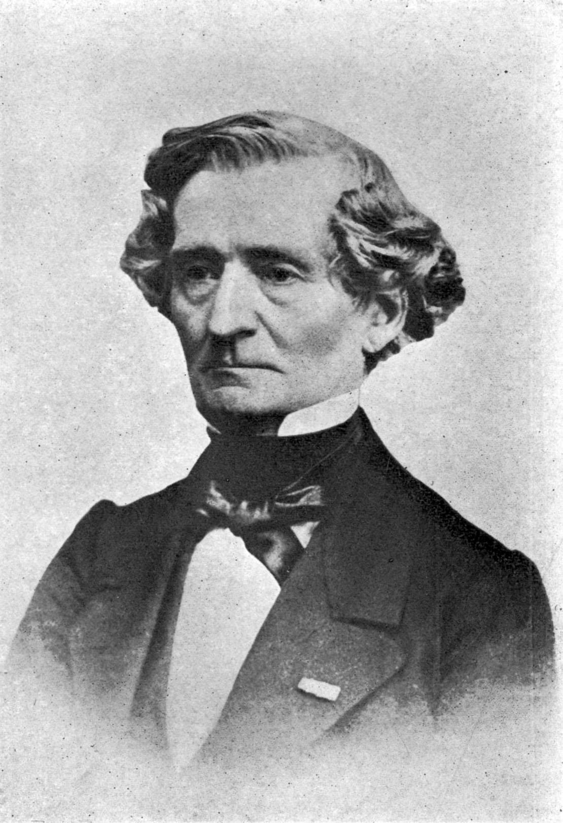 Photo of Hector Berlioz (1803–1869) [1]